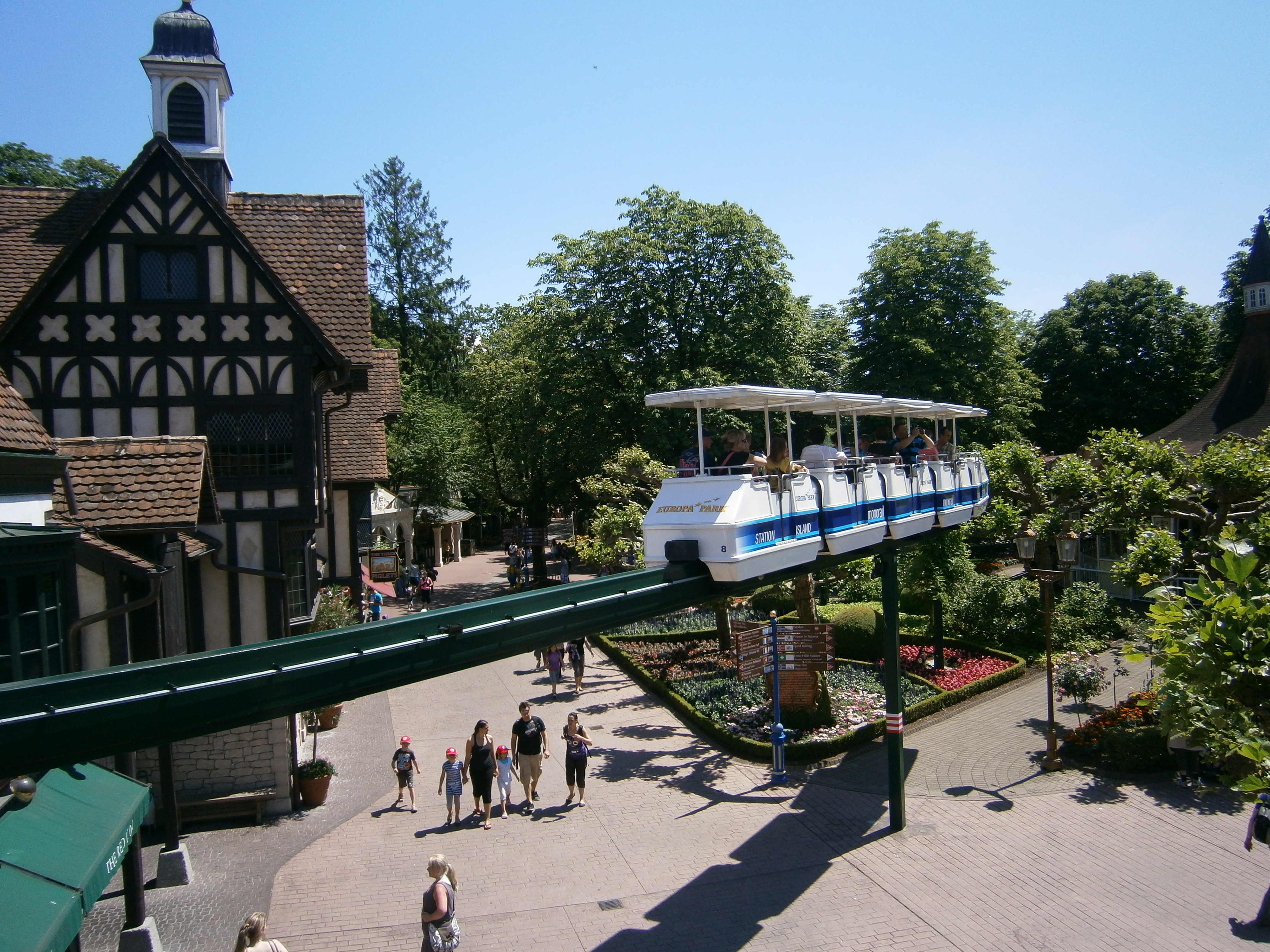 Monorail, Europa-Park, Rust, Baden-Württemberg, Germany.